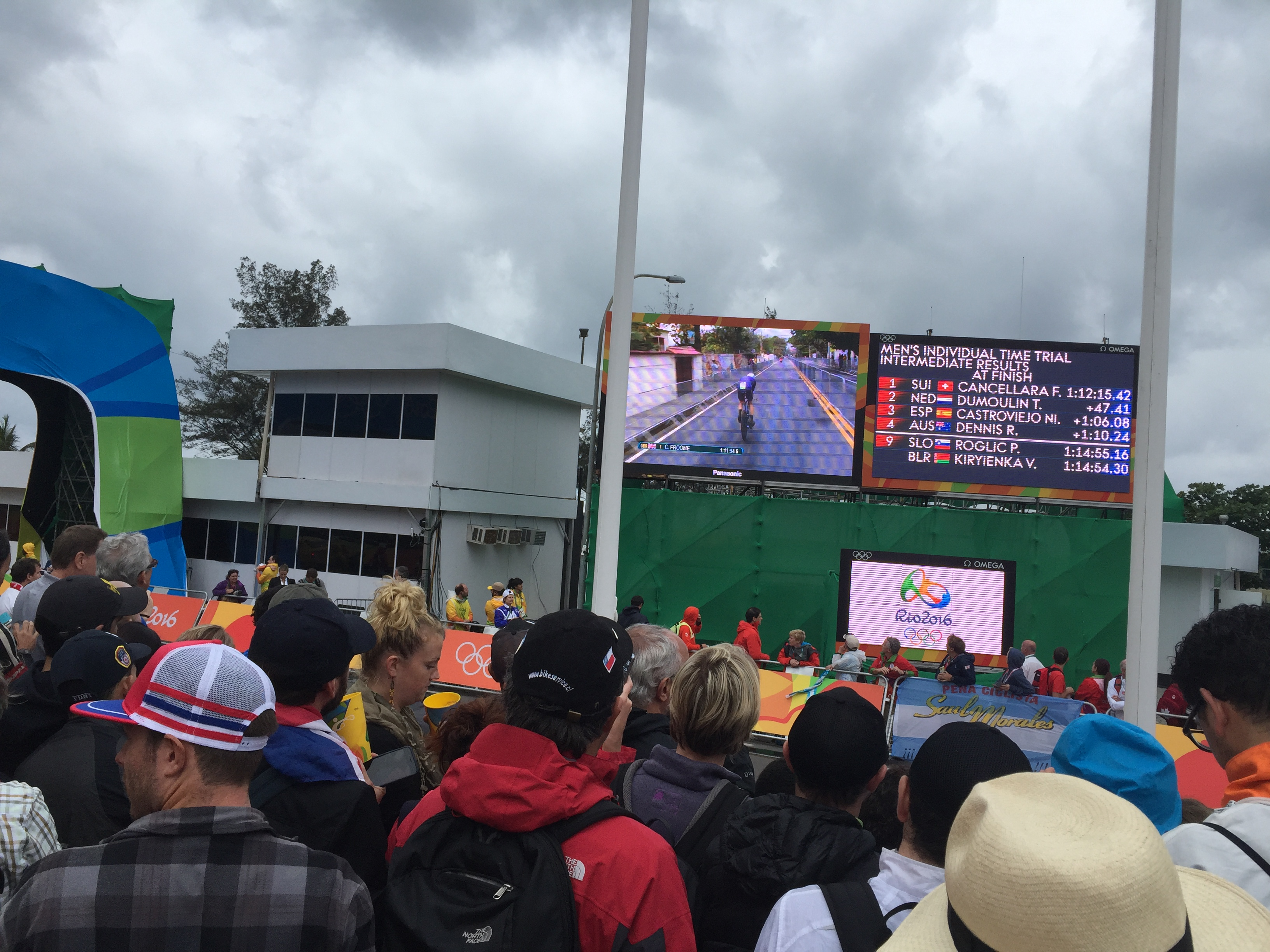 Rio 2016 - Men's time trial 10 August (CR003)